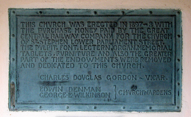 Plaque in the south porch of the parish church of St Stephen with St Paul, Bobbers Mill Road, Nottingham, England